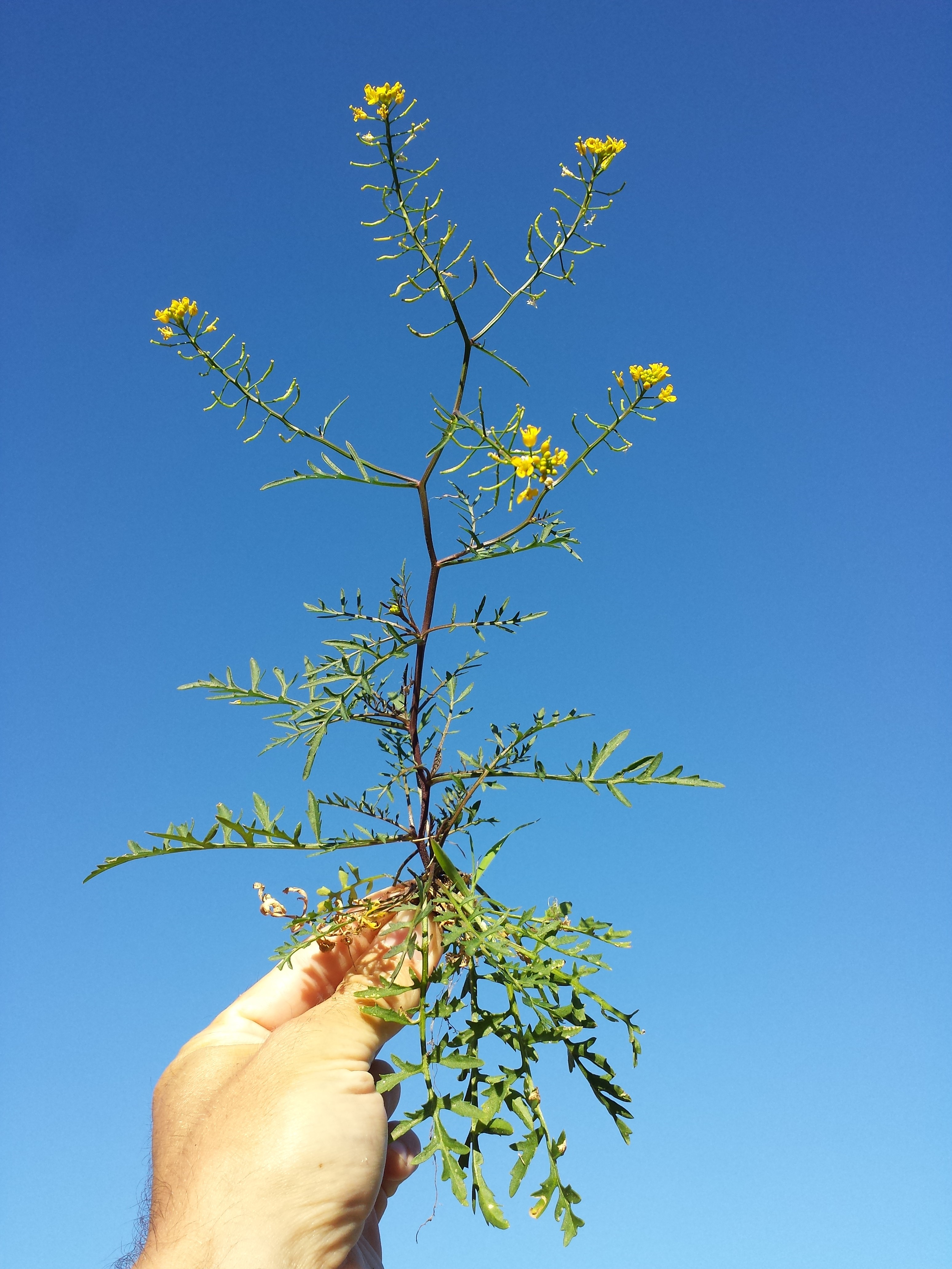 Habitus Taxonym: Rorippa sylvestris ss Fischer et al. EfÖLS 2008 ISBN 978-3-85474-187-9 Location: Jedleseer Friedhof, Vienna-Floridsdorf - ca. 160 m a.s.l. Habitat: grave